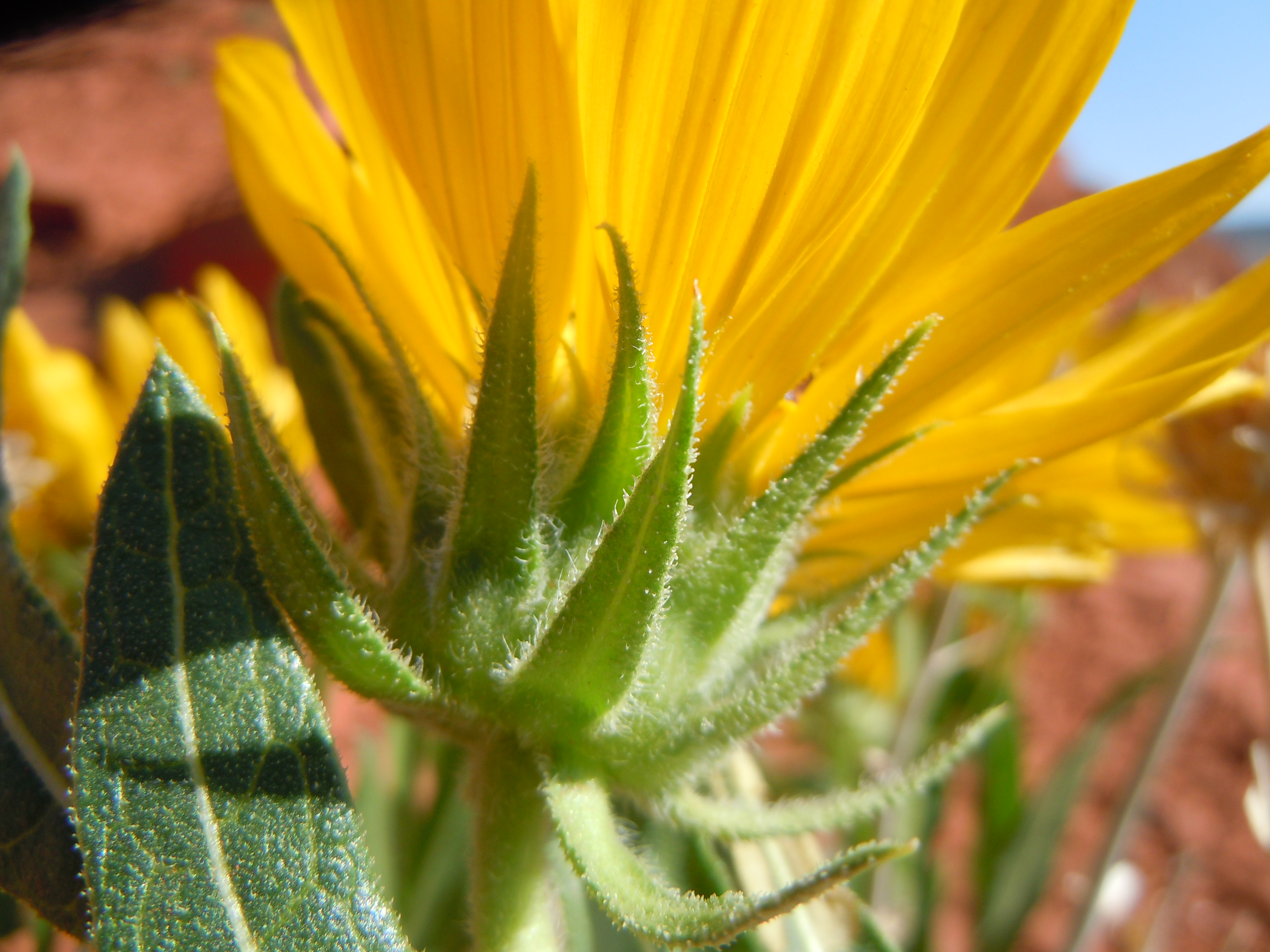 Seemingly most abundant on the red silt-sandstones of the Chugwater Formation, the scabrous stiff leaves are distinctive and persist in desiccated condition over the winter.